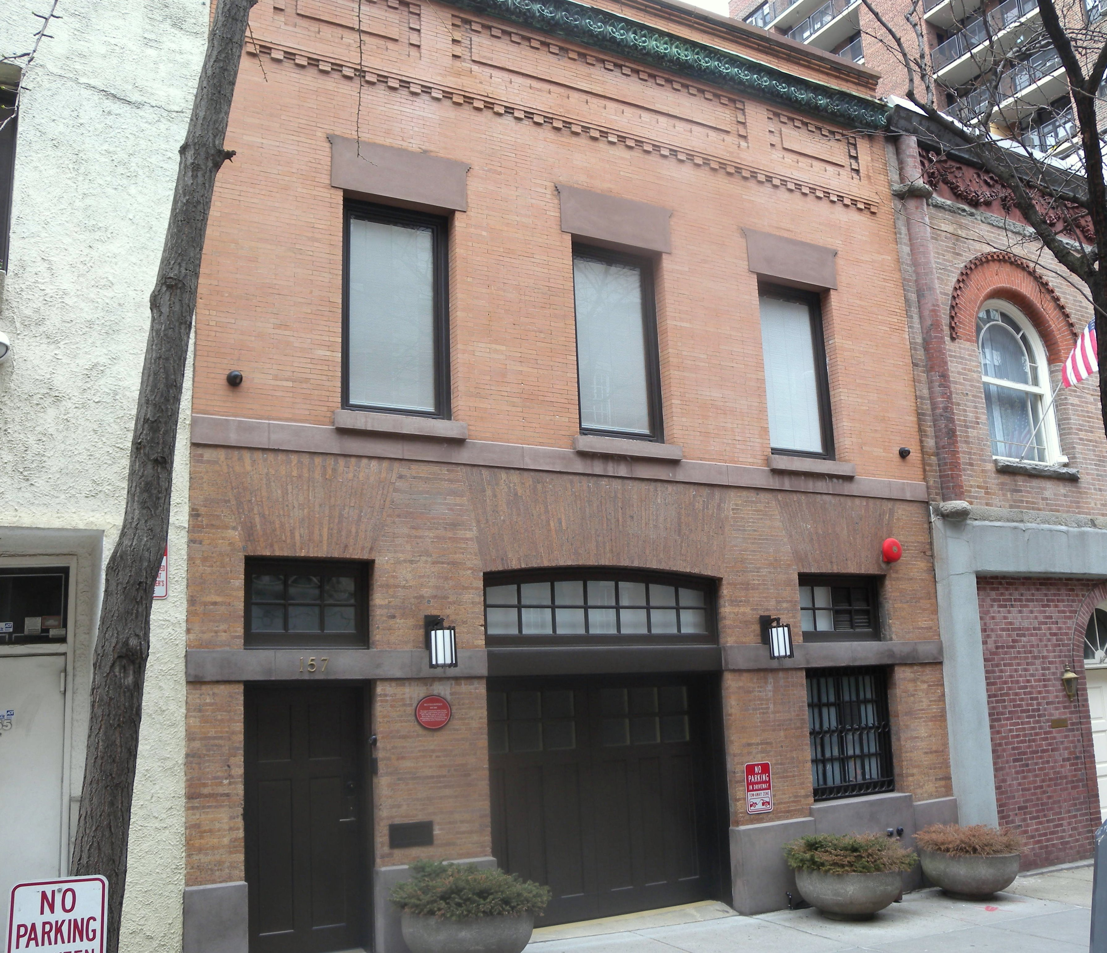 Looking northeast from 35th St at Malvina Hoffman's studio on a cloudy day. See File:Malvina Hoffman 157 E35 plaque jeh.jpg for plaque.